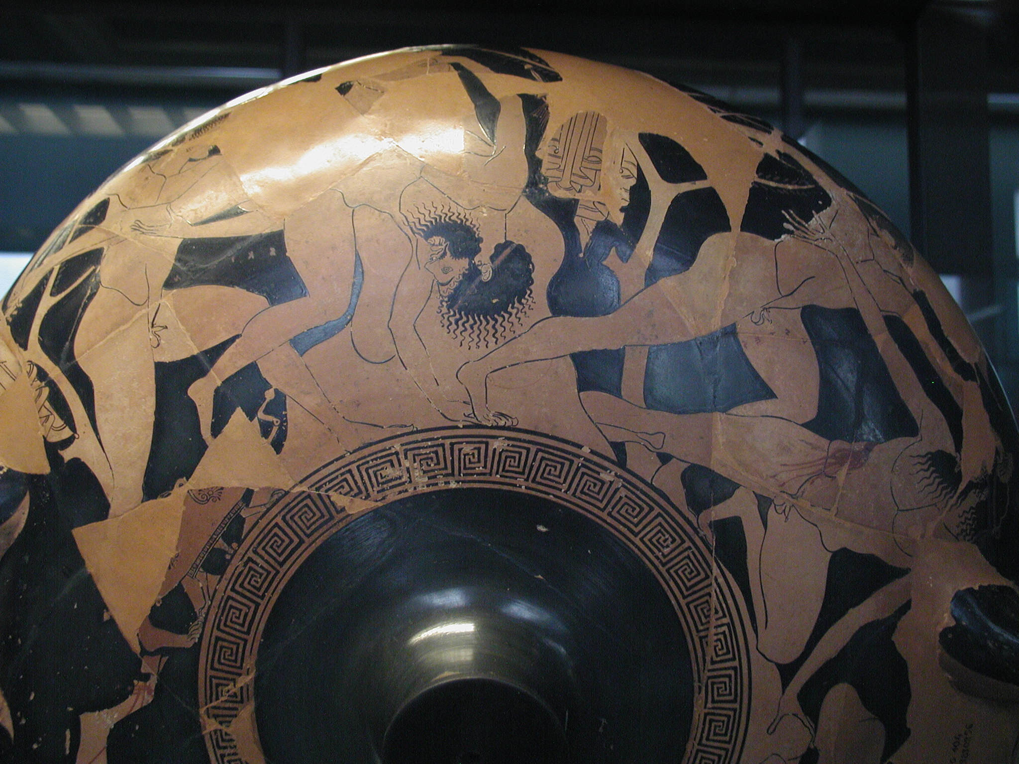 Theseus and Sciron; Theseus and Procrustes. Side A from an Attic red-figure cup, 500–490 BC. From Cerveteri (ancient Caere), Latium.